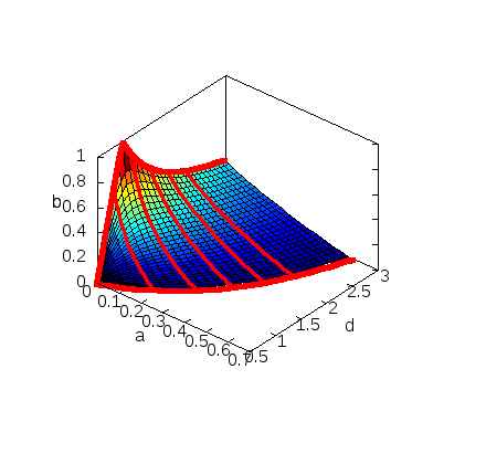 The graph shows the plane which separates the phase space of parameters a, b ​​and d. For points beneath the plane of the phase diagrams tend to cycle stable. For points above the plane of phase diagrams do go to focal point.